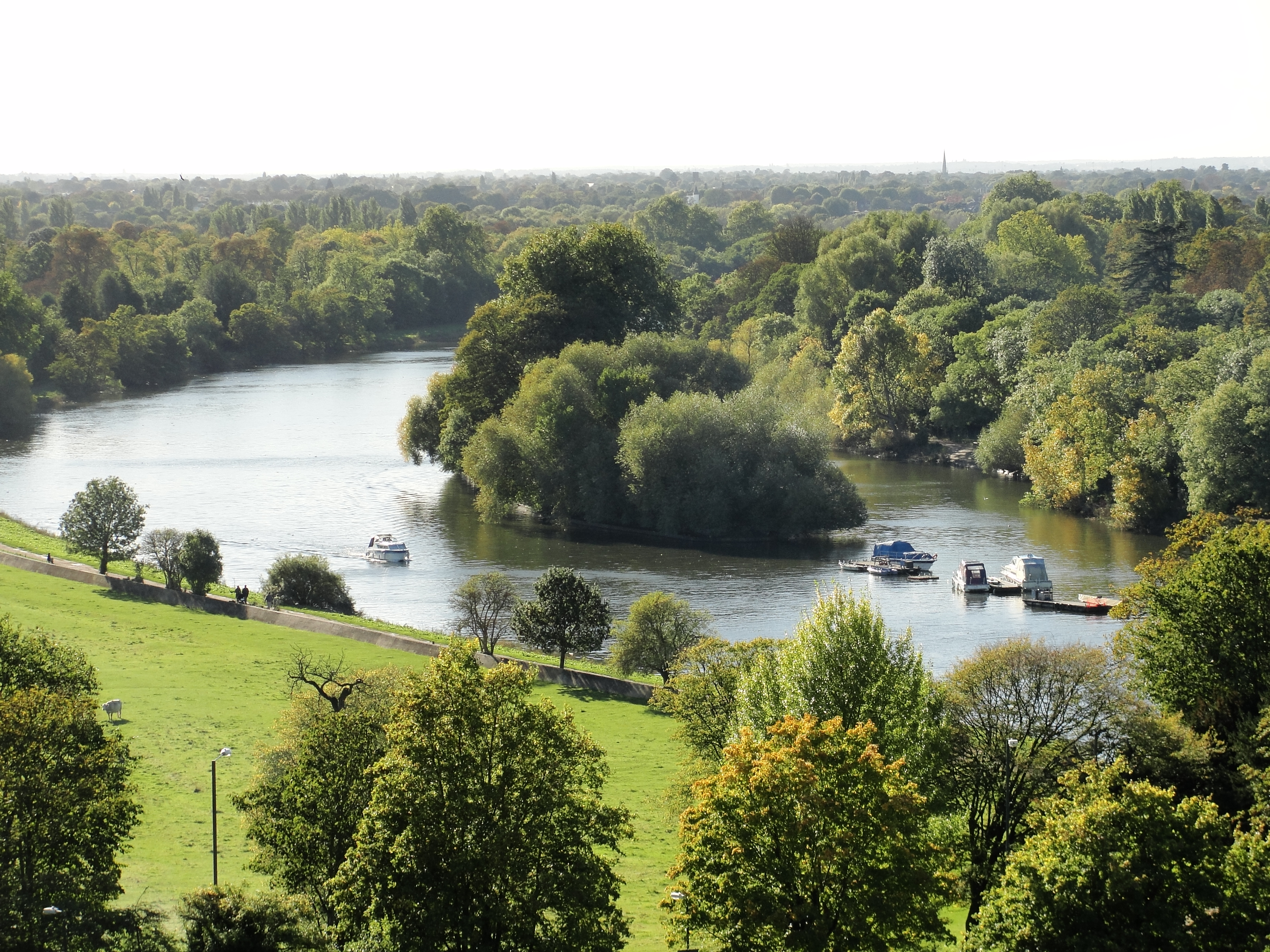 A View of The Thames from Richmond Hill